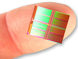 Smaller than a typical postage stamp and able to store 1 terabit of data, Intel and Micron's 20-nanometer NAND flash chip was named "Semiconductor of the Year" by UBM TechInsights. Intel Free Press story: NAND Is No Flash in the Pan. NAND revenue slowed in the second quarter; faster, more reliable SSDs on horizon.